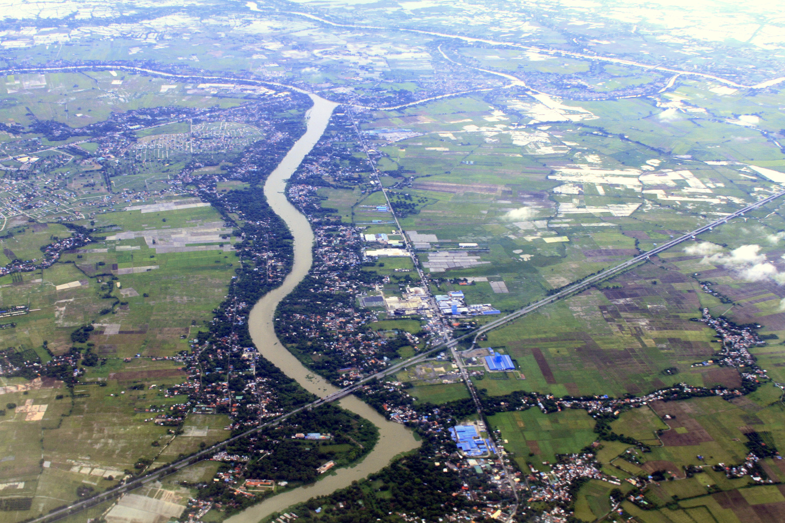 Aerial view of Angat River passing through the Municipalities of Pulilan (bottom) and Calumpit (top), Bulacan. A section of North Luzon Expressway (NLEX) can be seen in this picture. July 2014.